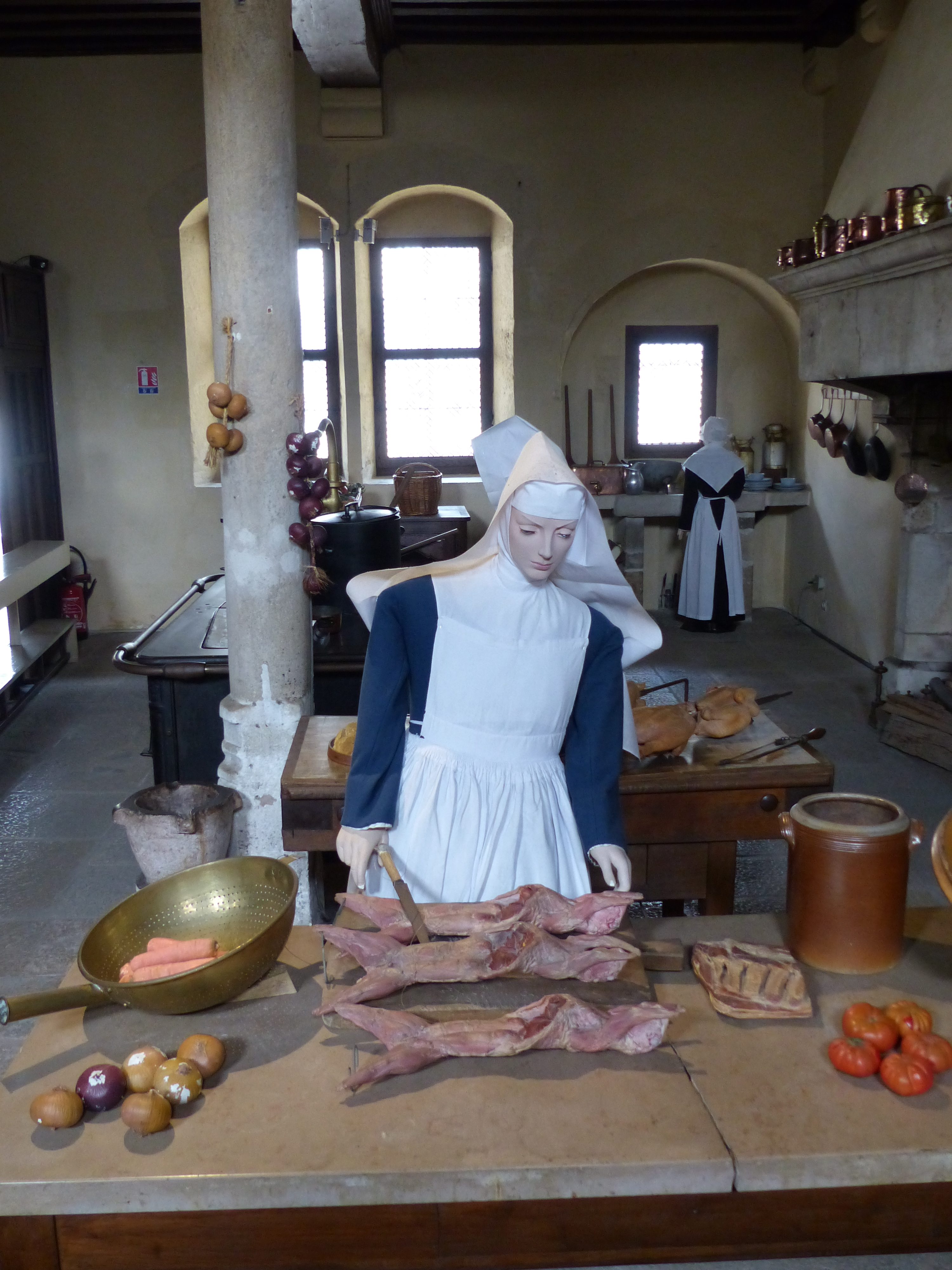 Kitchen - Hotel Dieu, Beaune. Taken on the 17th of May, 2016.